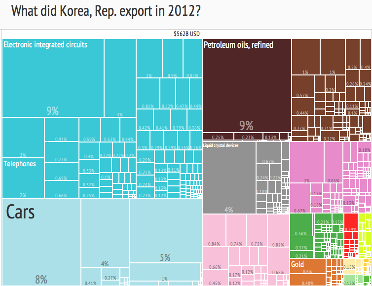 2012 South Korea Products Export Treemap